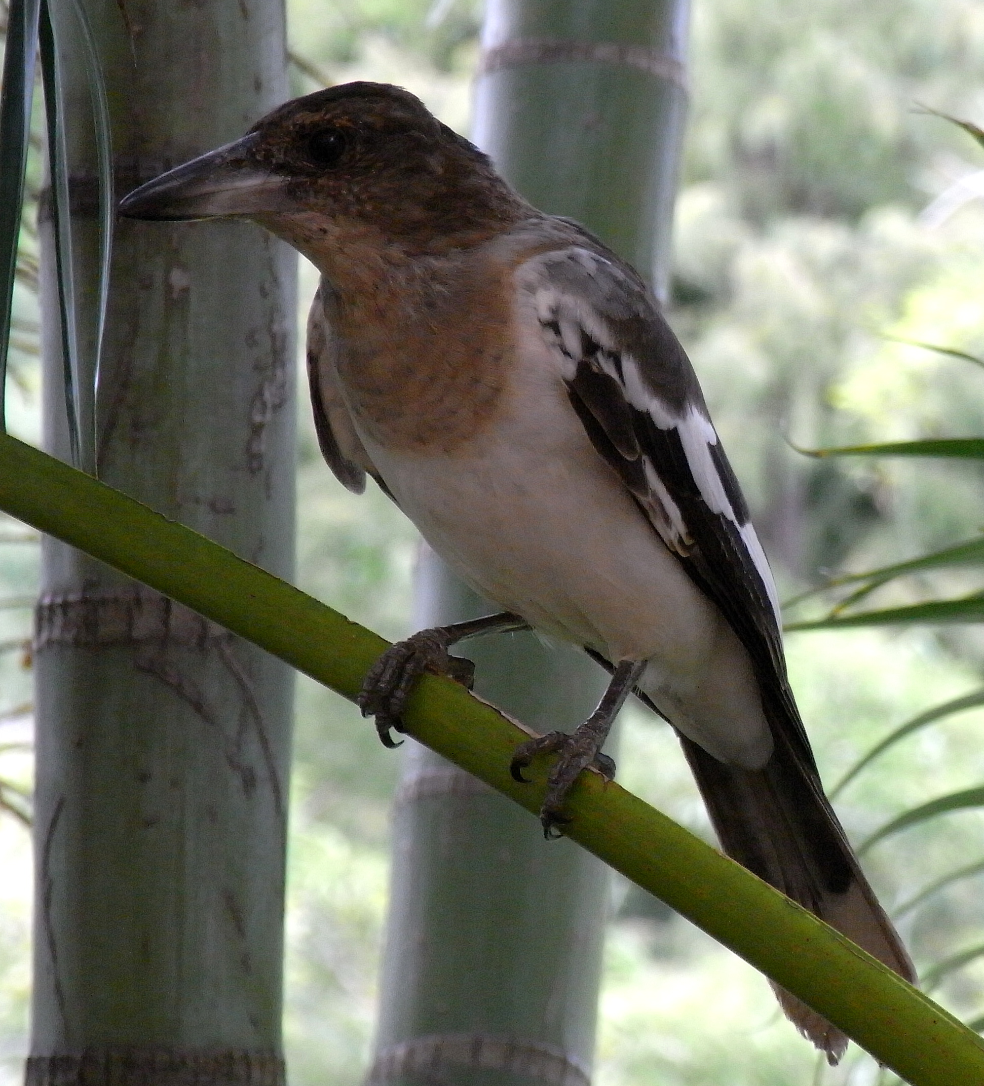 Female Pied Butcherbird (Cracticus nigrogularis) at the cafe in the Brisbane Botanical Gardens at Mount Coot-tha, Brisbane, Australia.